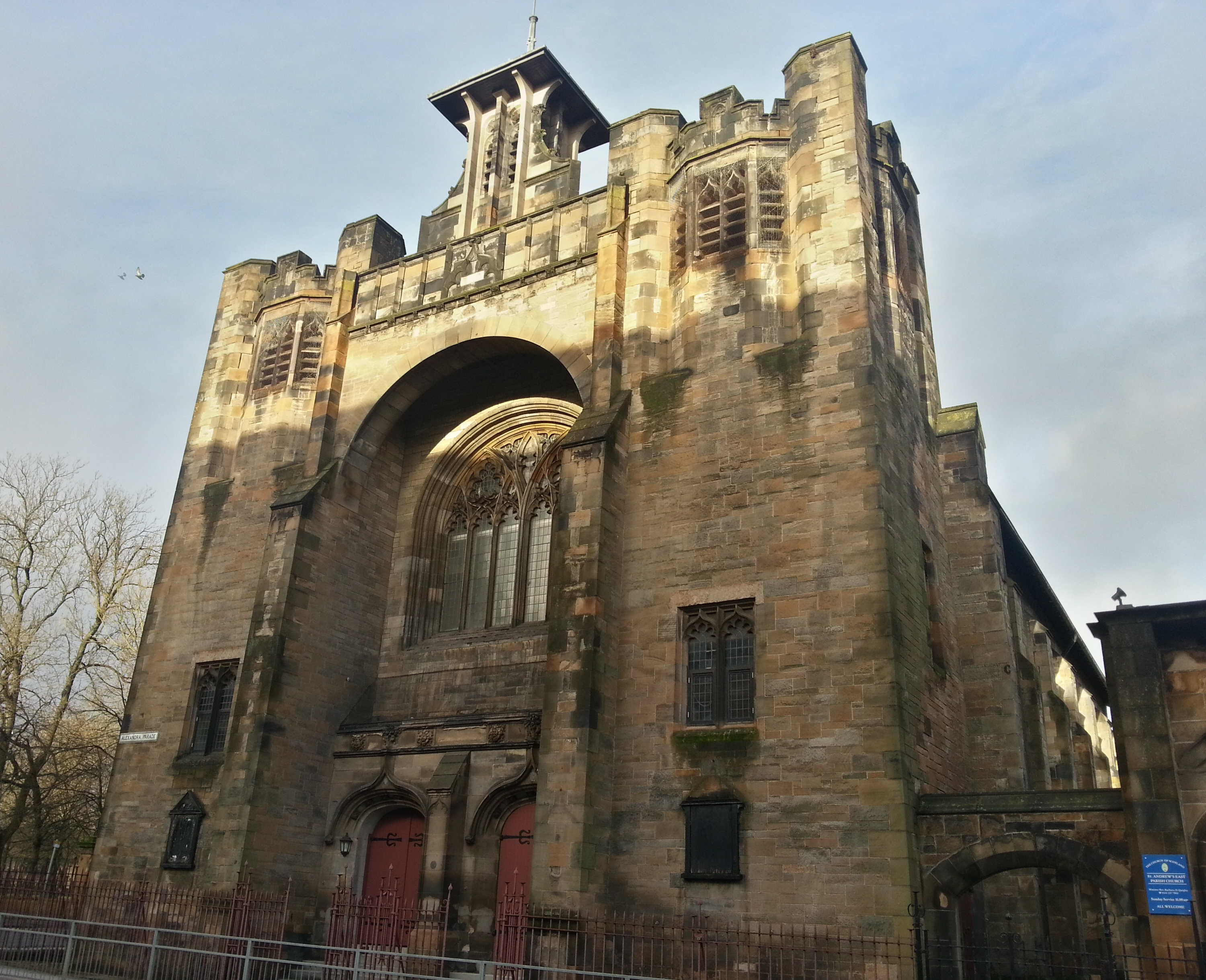 St Andrew's East Church